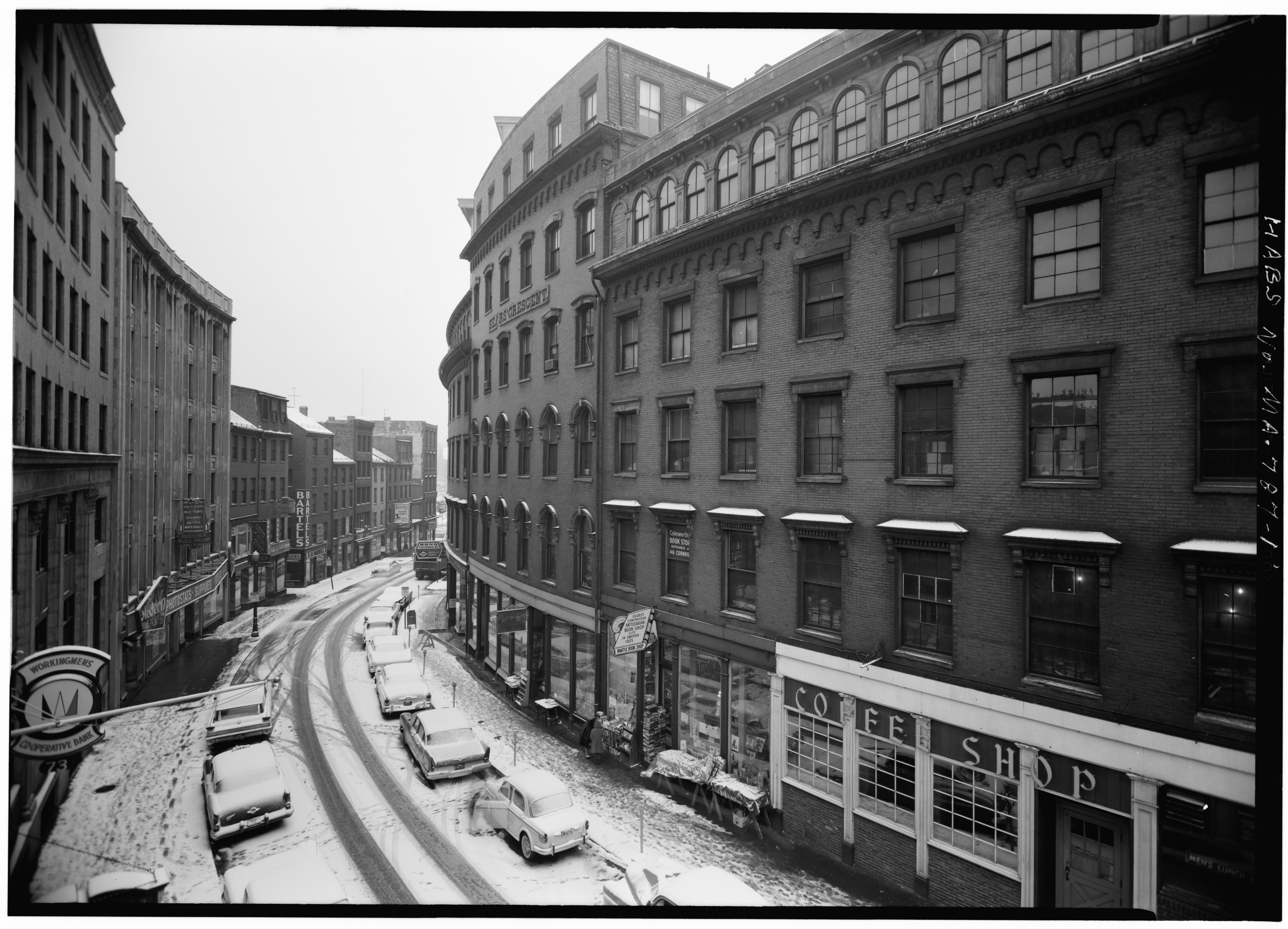 Cornhill, Boston, Mass., 1962. From the Historic American Buildings Survey, Library of Congress, Prints and Photograph Division, Washington, D.C. 20540 USA. Survey number HABS MA-787.